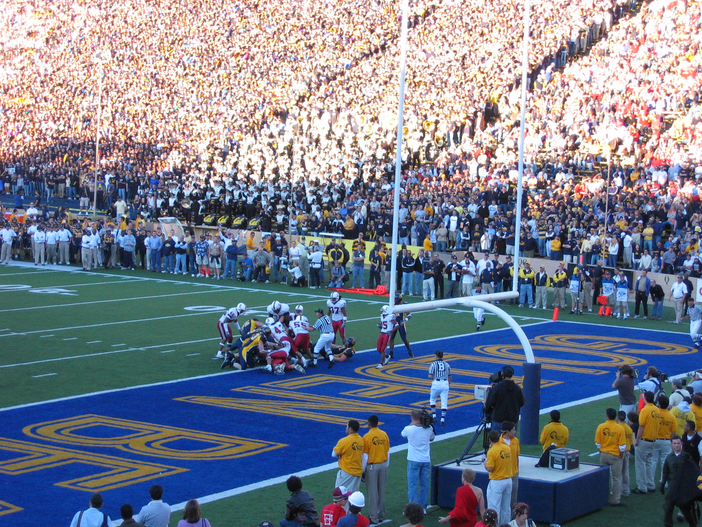 Photo taken by Poppy in November 2004. Big Game 2004 (Cal-Stanford) : Play